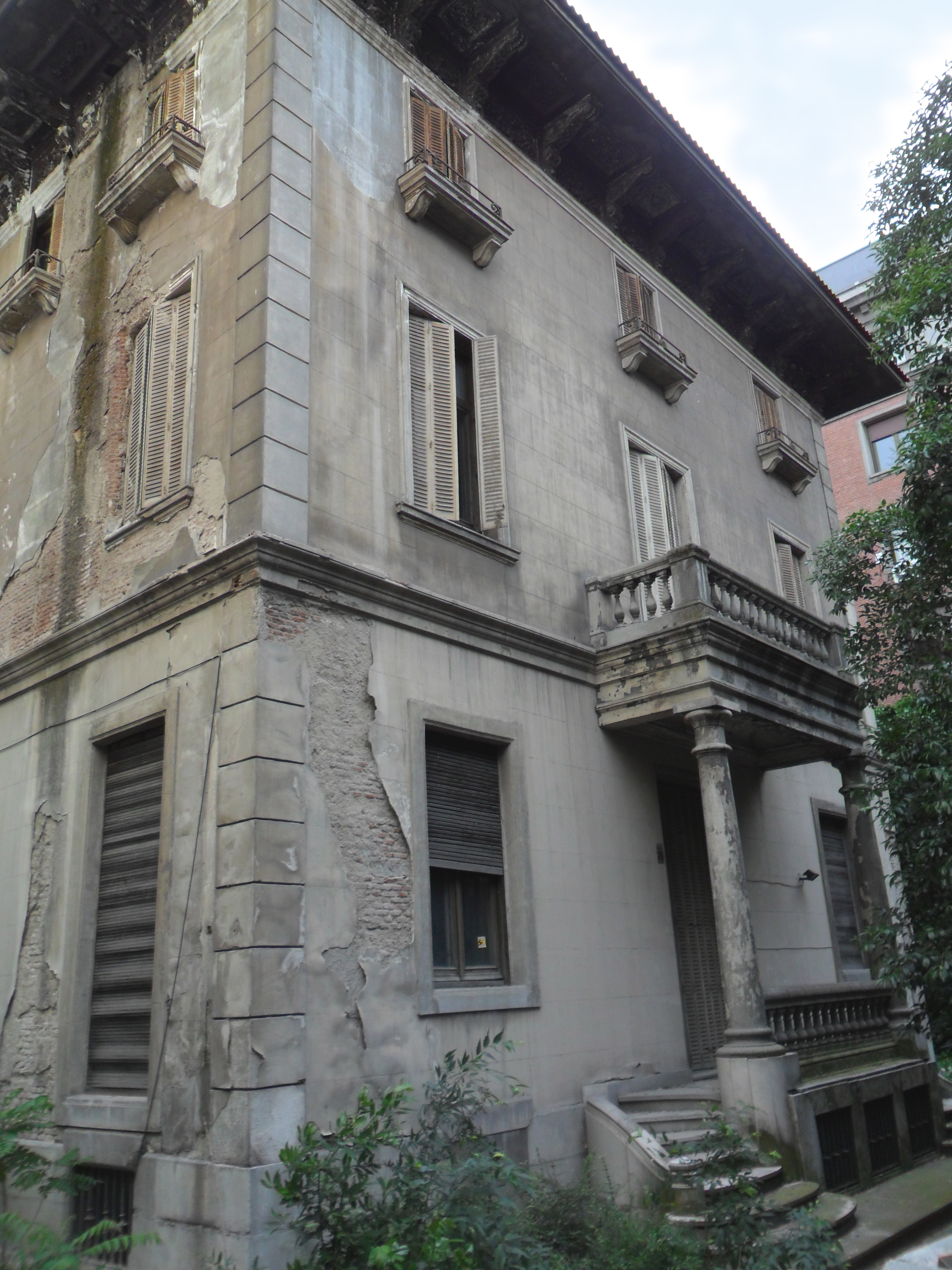 Mansion at 18 Calle de Villanueva (street) in Salamanca district in Madrid (Spain). Promoted by the Marquis of Salamananca as the standard residence for the Ensanche. It was designed by Cristóbal Lecumberri and buit between 1865 and 1870.